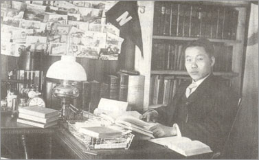 Bak Yong-man in Lincoln, Nebraska Korean dormitory in 1911